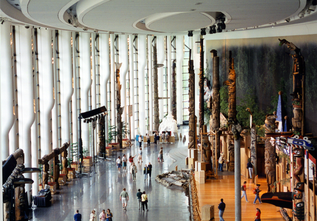 Canadian Museum of Civilization, Hull, Quebec, Canada. The museum building was completed in 1989. It was designed by Canadian architect: Douglas Cardinal.